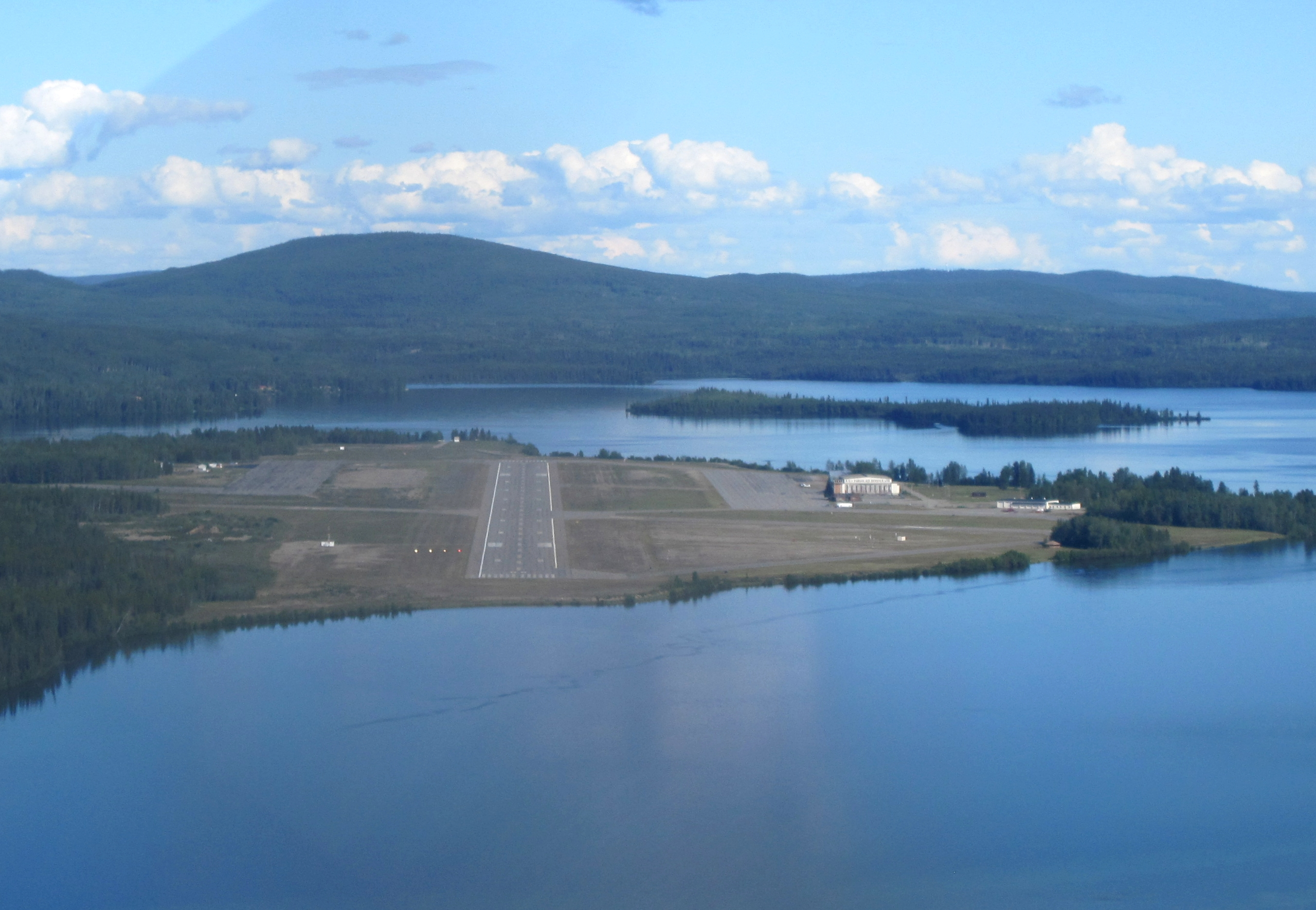 Watson Lake Airport, Watson Lake, Yukon Territory. July 23, 2011.